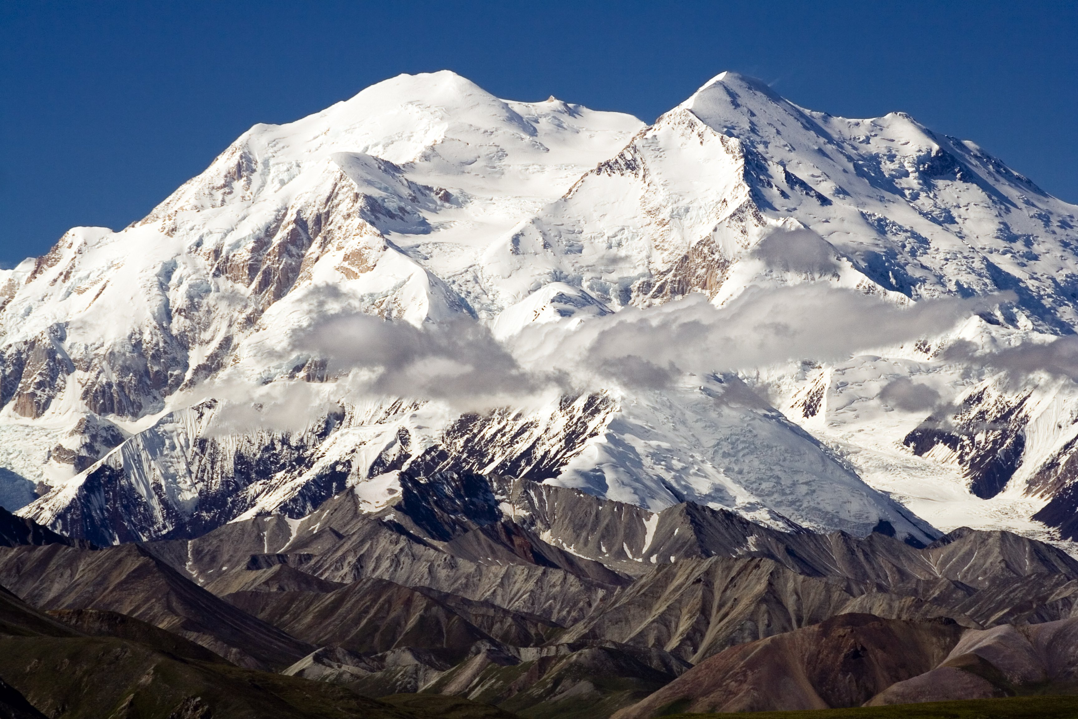 View of Mount McKinley of the Denali National Park.